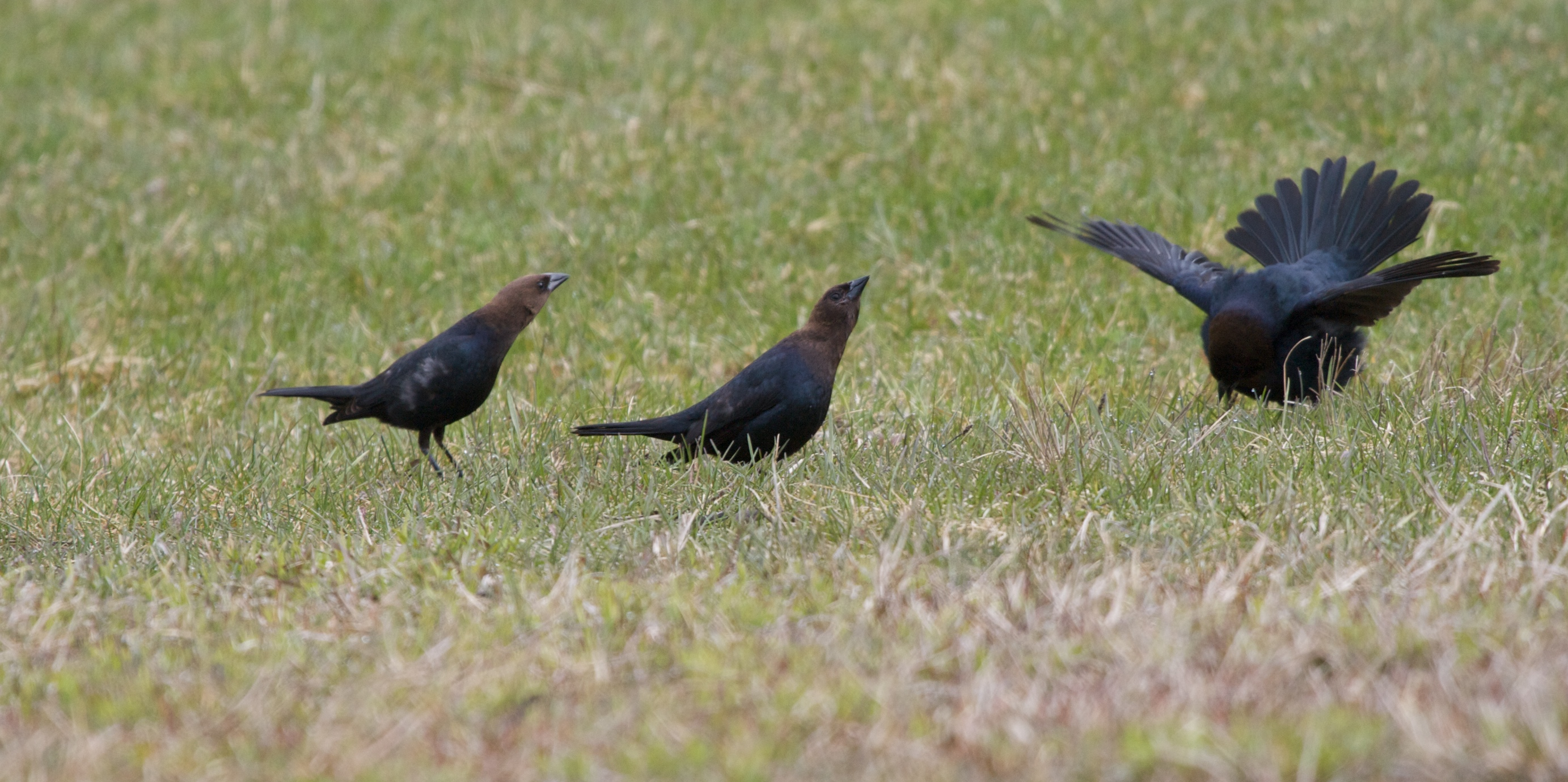 Male Brown-headed Cowbirds in Ontario, Canada. When males sing, they often raise their back and chest feathers, lift their wings and spread their tail feathers, and then bow forward. Groups of males may do this together.